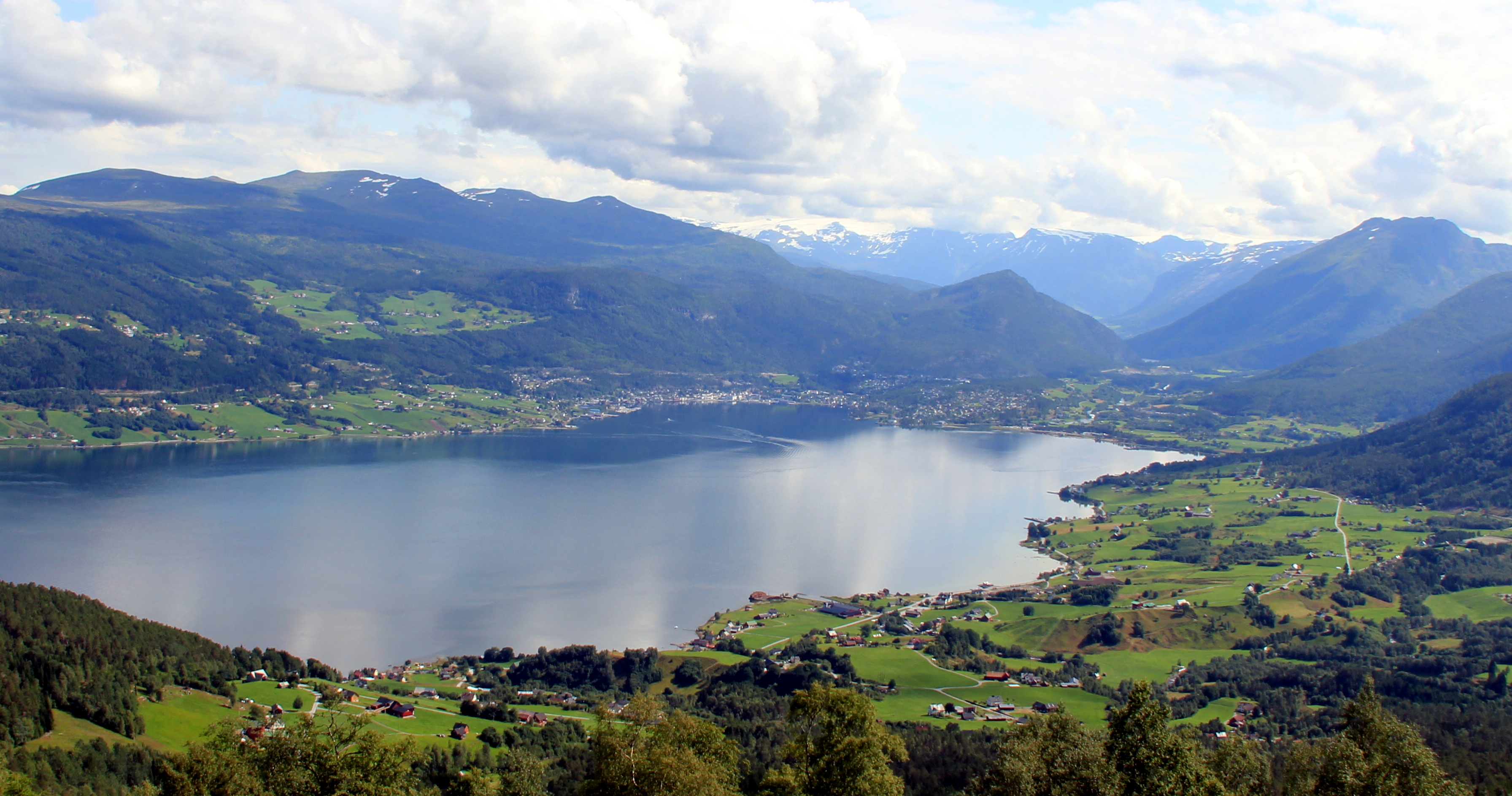 View of Gloppen, Gloppenfjord and Sandane, Norway